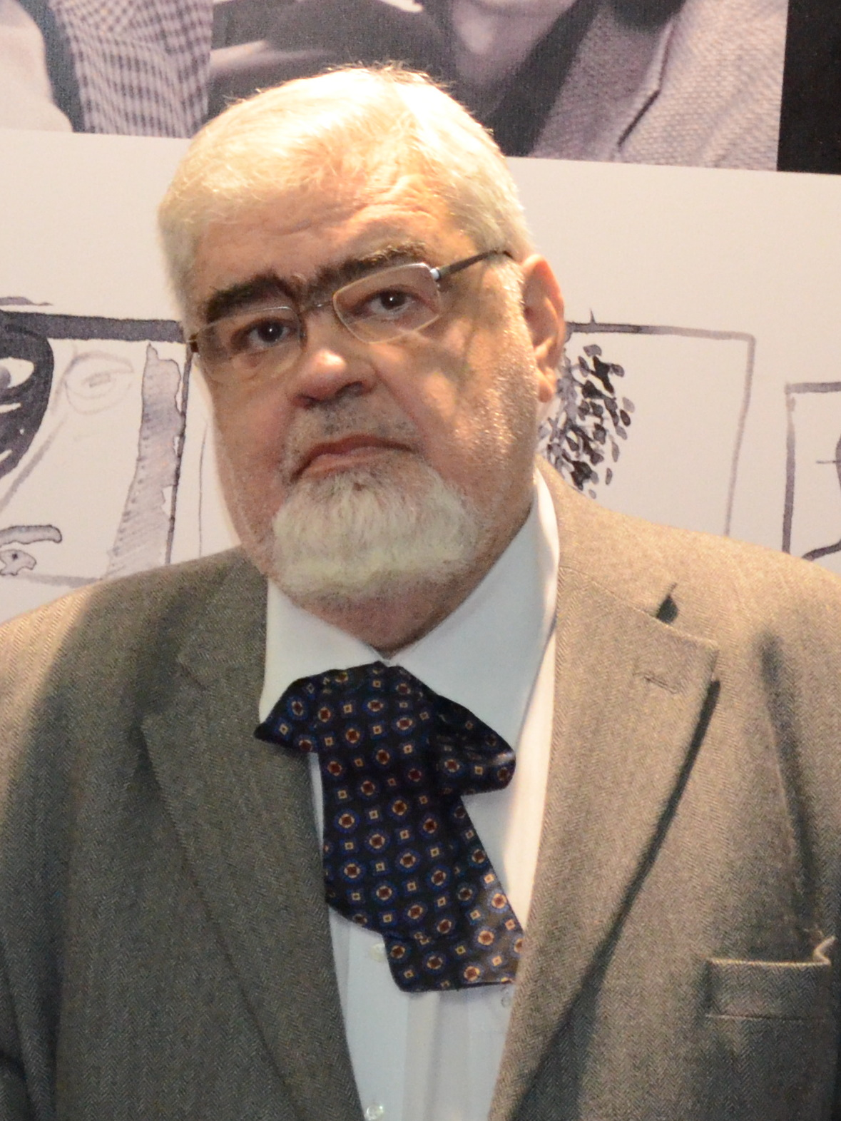 Andrei Pleșu, at Gaudeamus Book Fair 2011